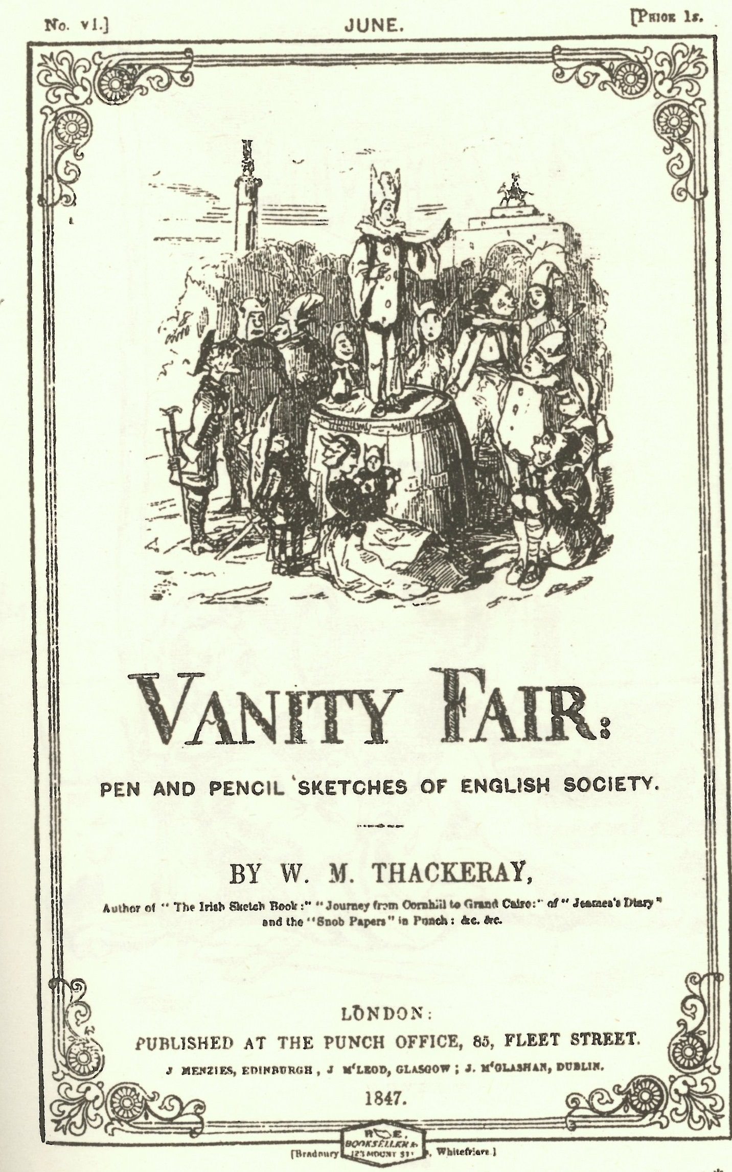 The cover of Vanity Fair: Pen and Pencil Sketches of English Society, No. VI, printed by Bradbury & Evans for Punch. Priced 1s. W.M. Thackeray advertised as the author of "The Irish Sketch Book", "Journey from Cornhill to Grand Cairo", "Jeames's Diary", and the "Snob Papers" in "Punch", &c. &c.